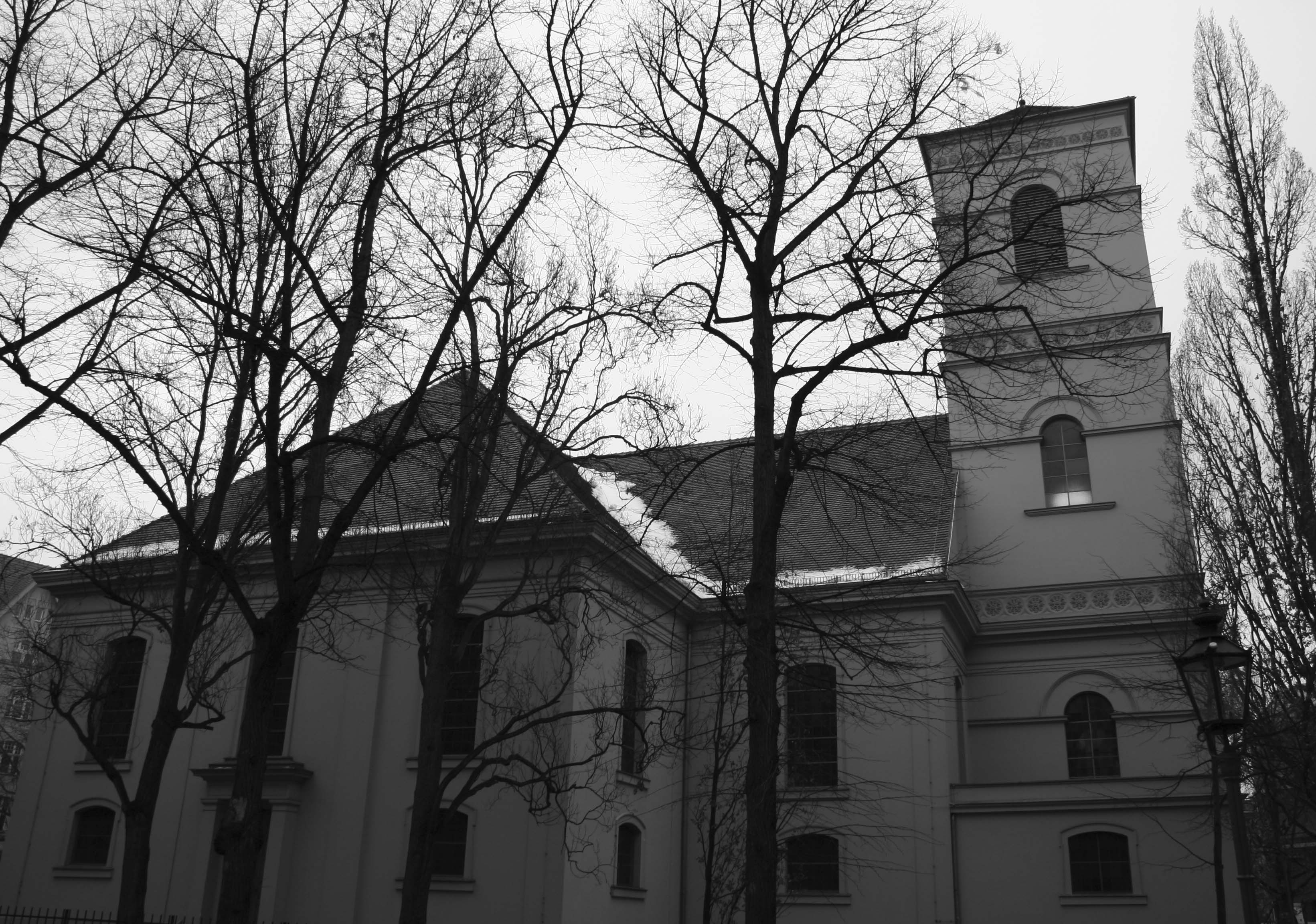 Luisenkirche See where this picture was taken. [?]